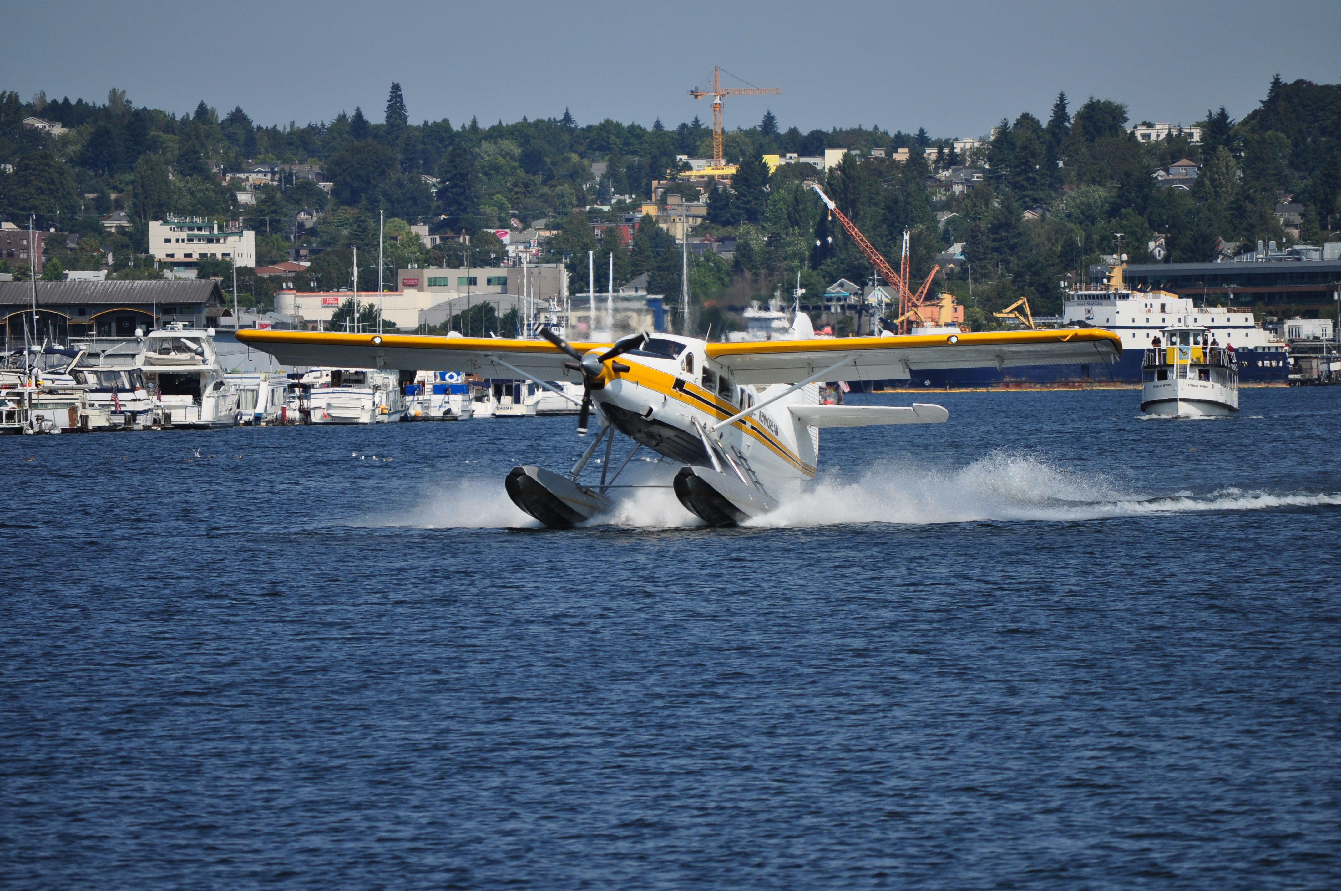 Kenmore Air seaplane landing on Lake Union, Seattle, Washington, USA. Propeller running in reverse to brake.